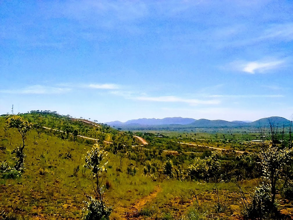 Clipsham Heights, an expansion of suburbs in Masvingo. This is an image with the theme "Africa on the Move or Transport" from: Zimbabwe